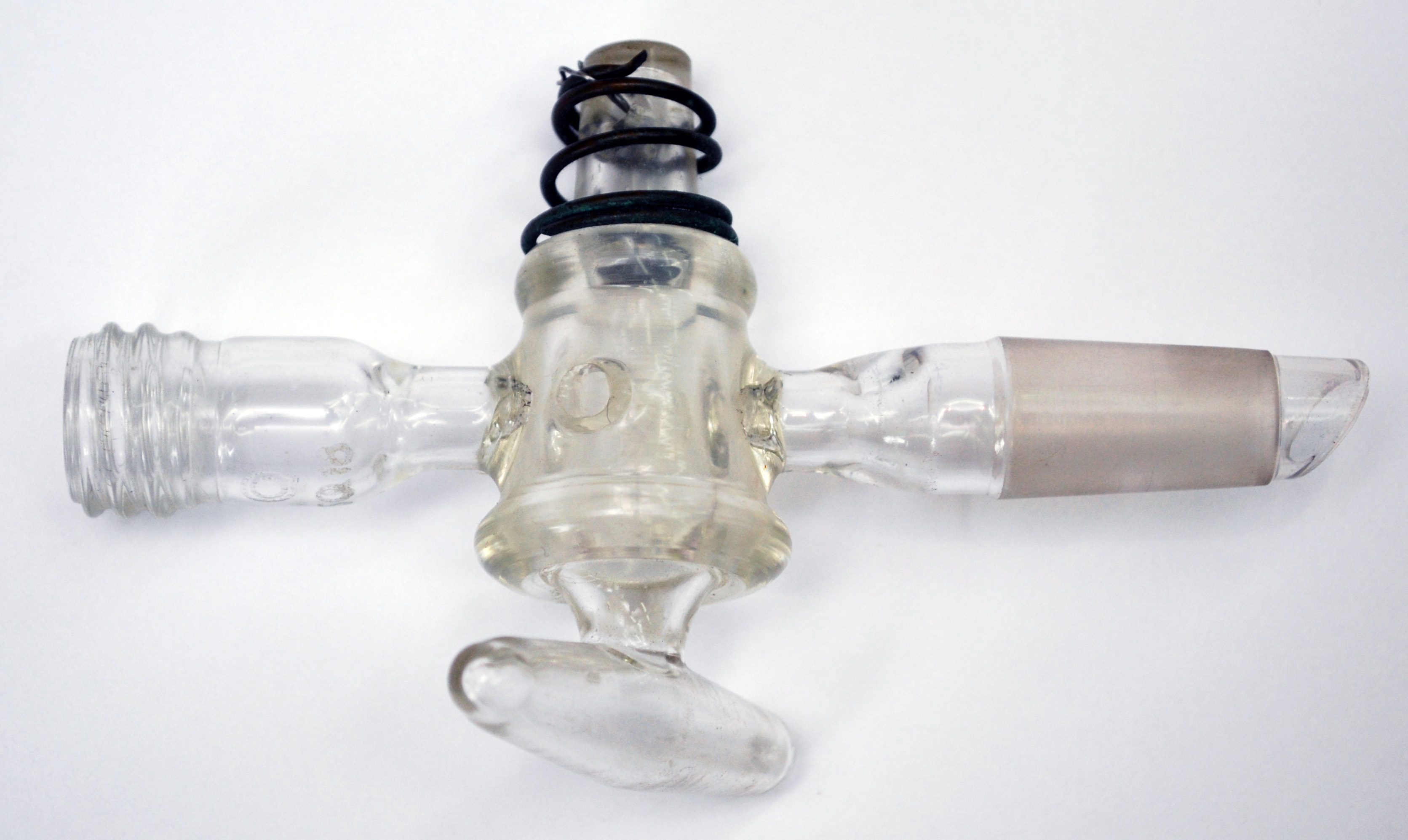 Simple high vacuum glass tap